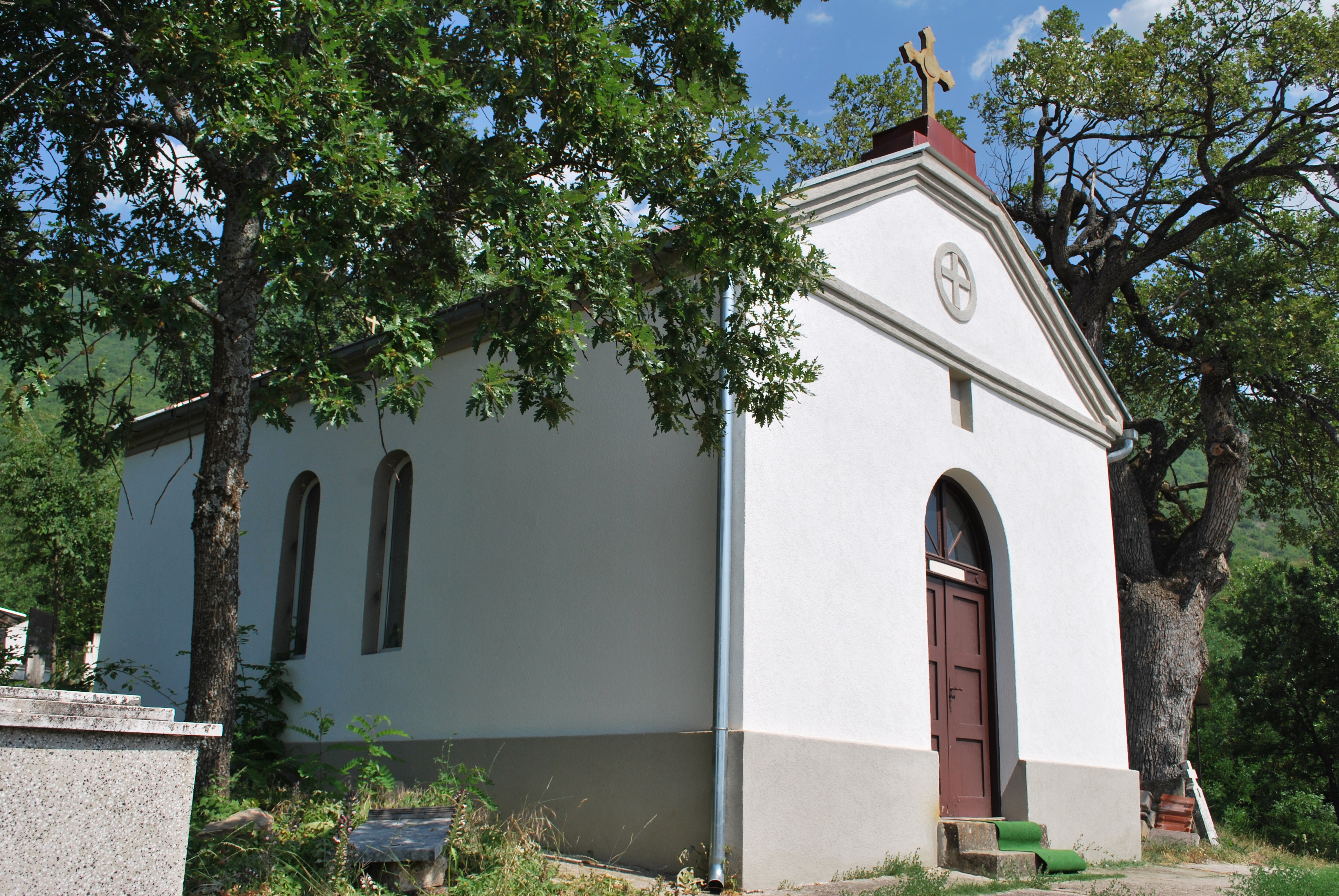 St. Athanasius Church in Volkovija near Tetovo, Macedonia